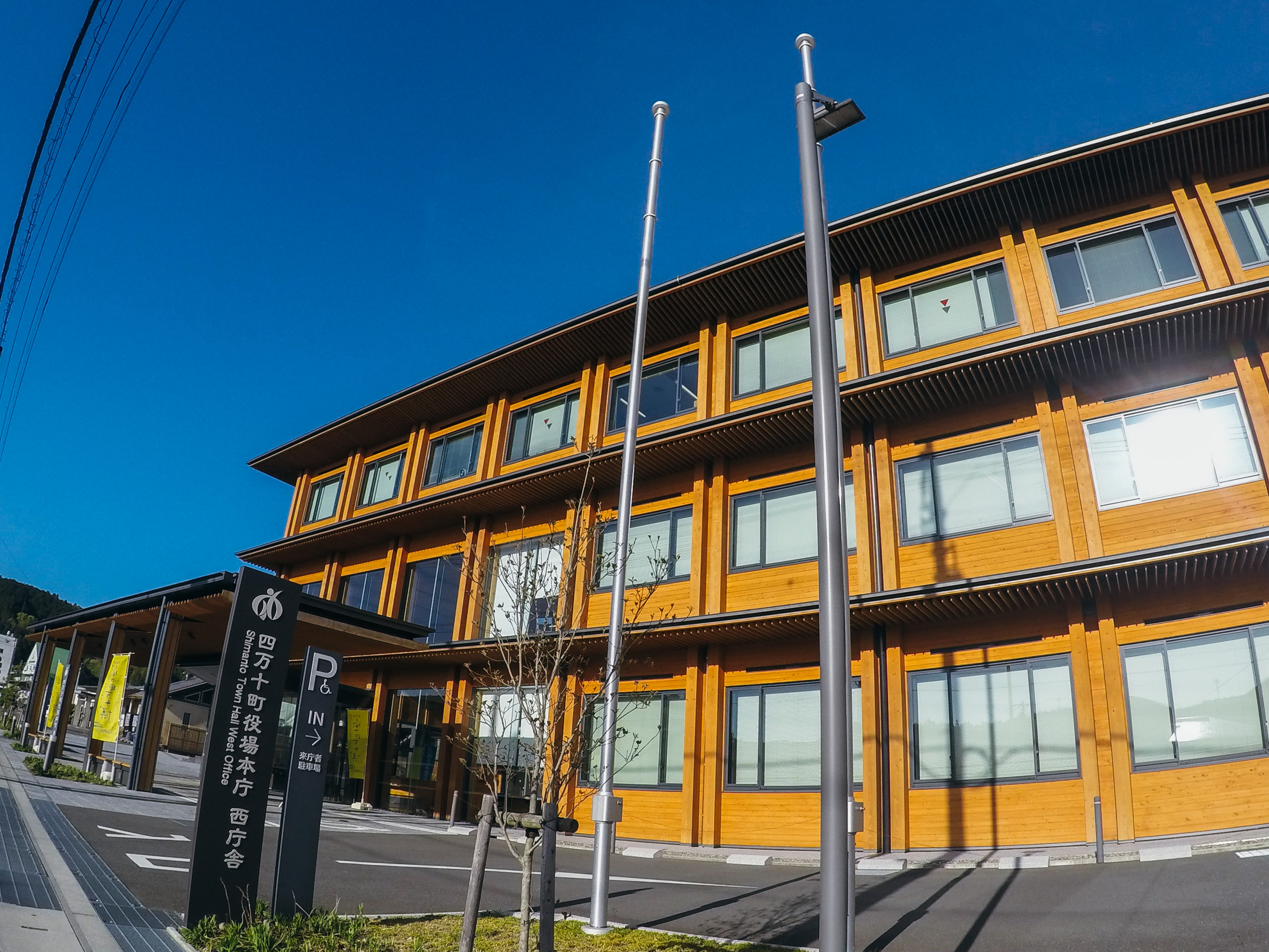 West side of the new Shimanto-cho Town Hall.